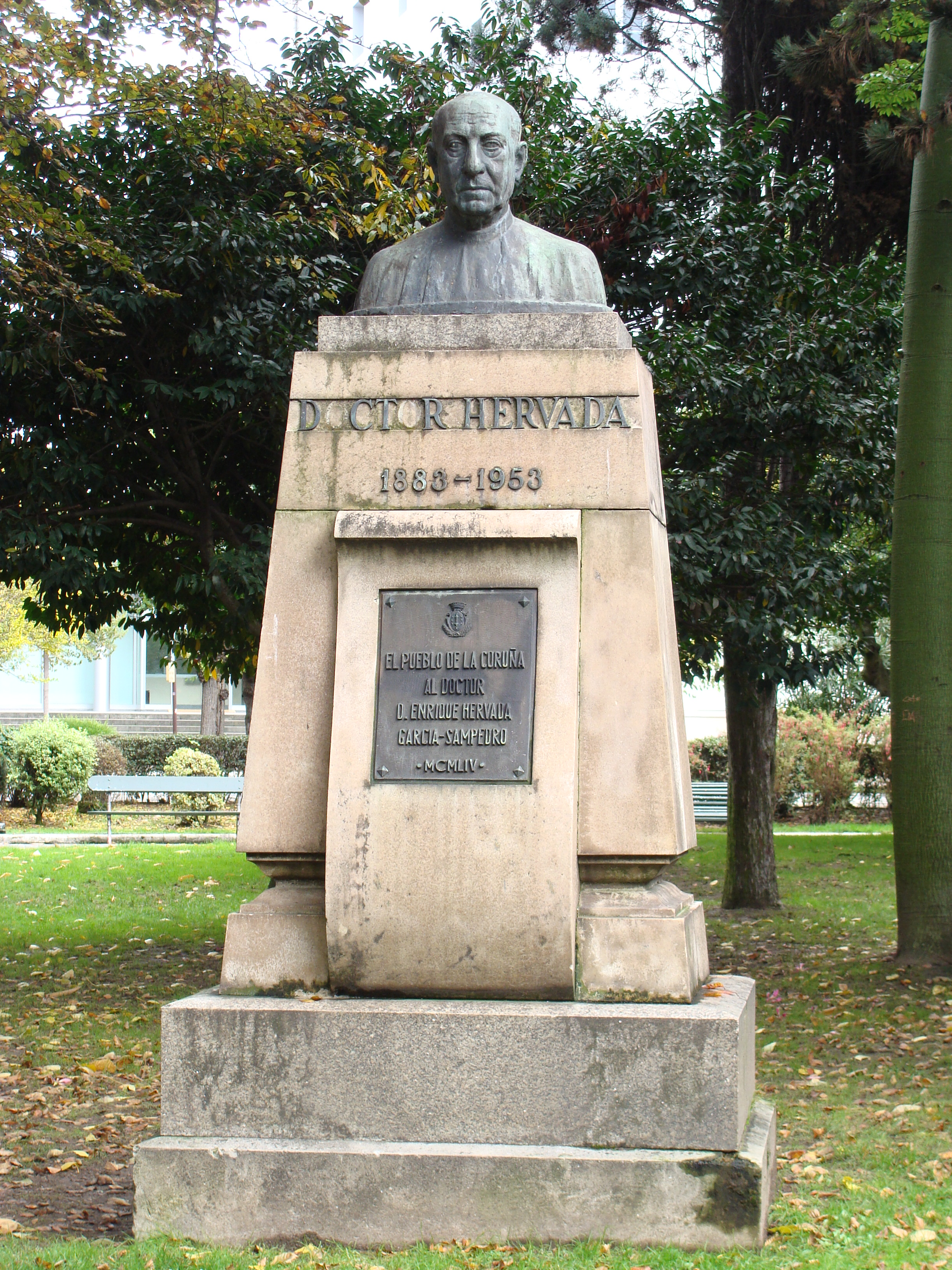 Statue of Dr. Enrique Hervada García-Sampedro in Corunna, Galicia, Spain